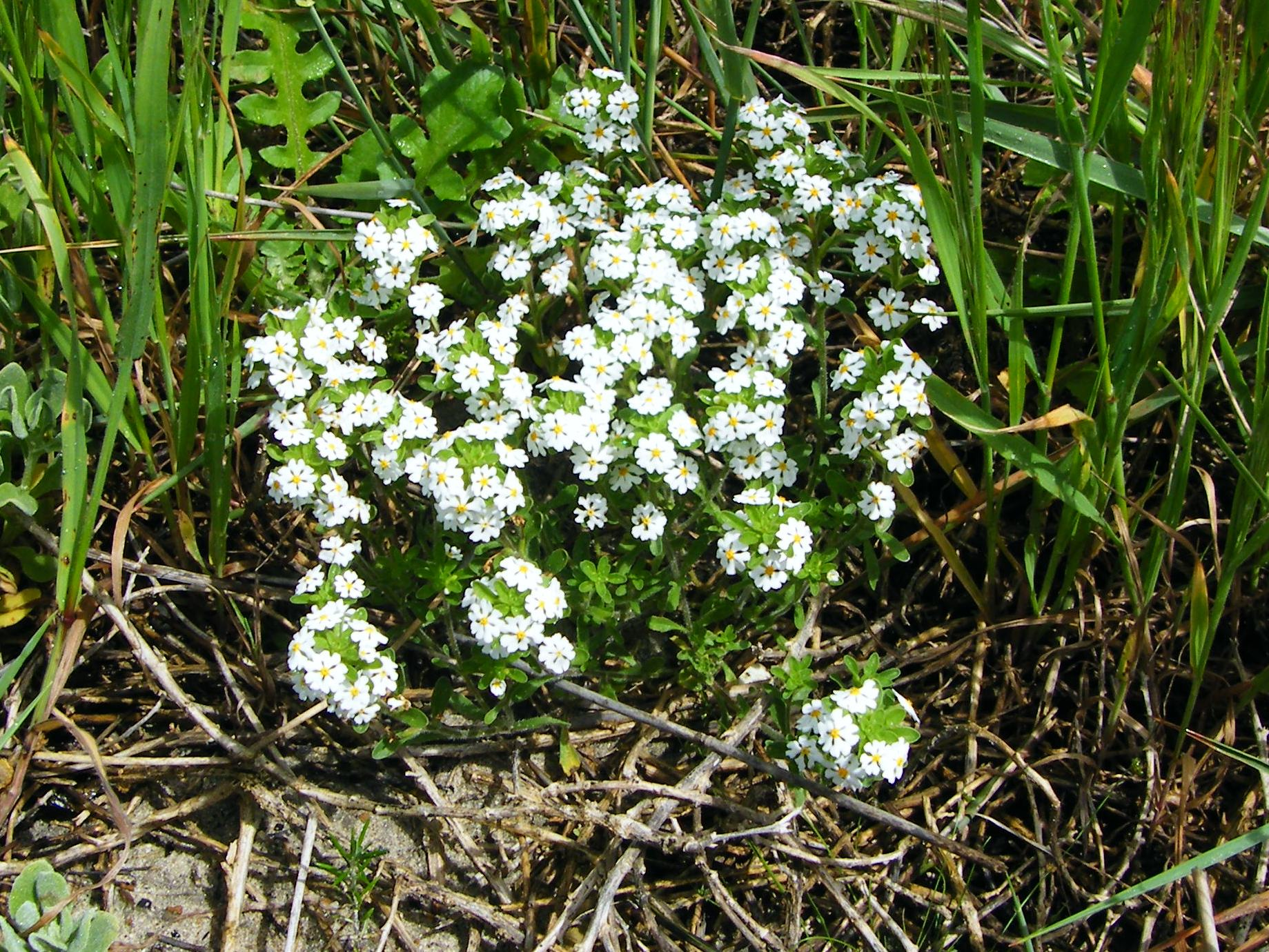 Drumsticks